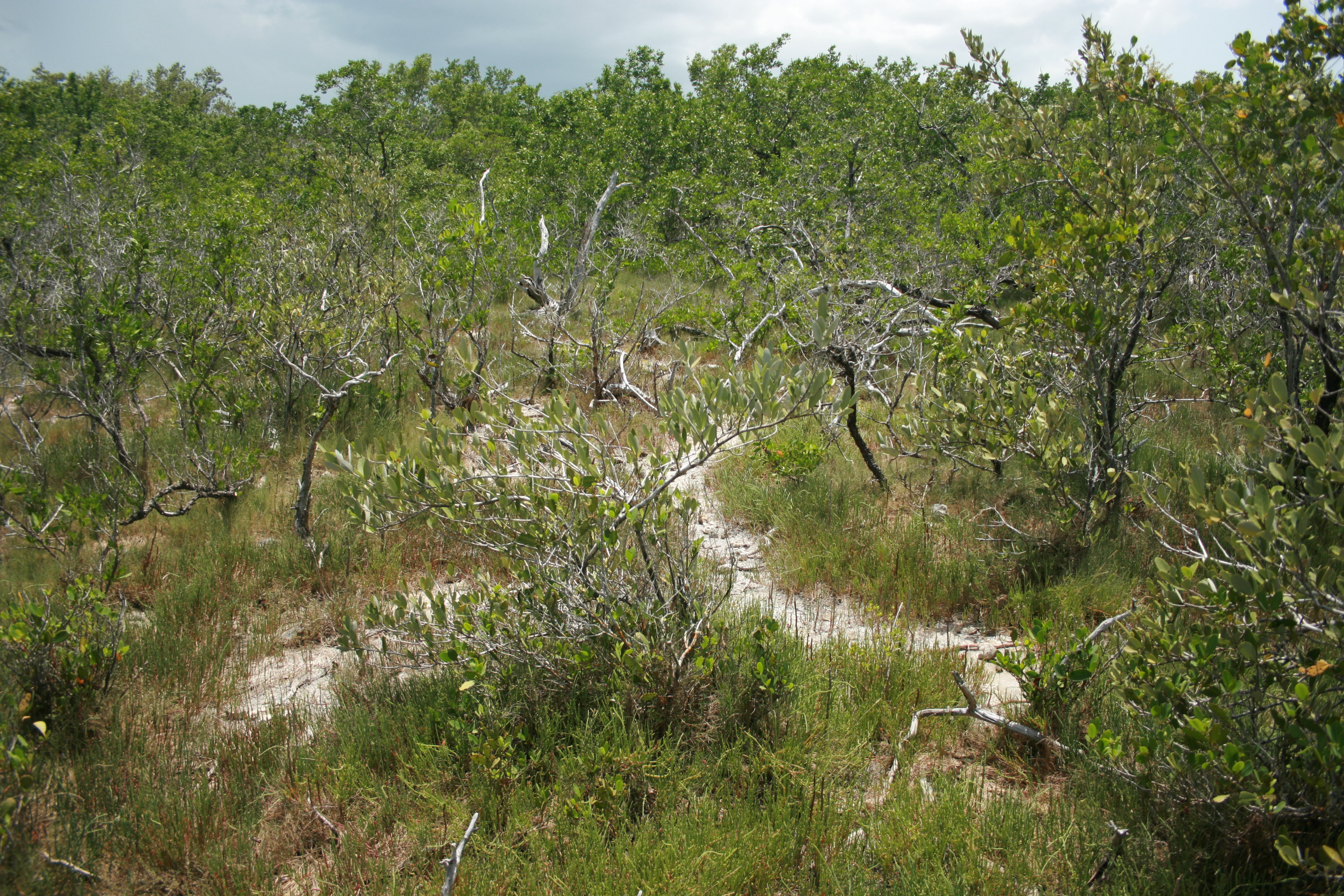 View from Buttonwood Marsh Trail in National Key Deer Refuge, Big Pine Key, Florida.